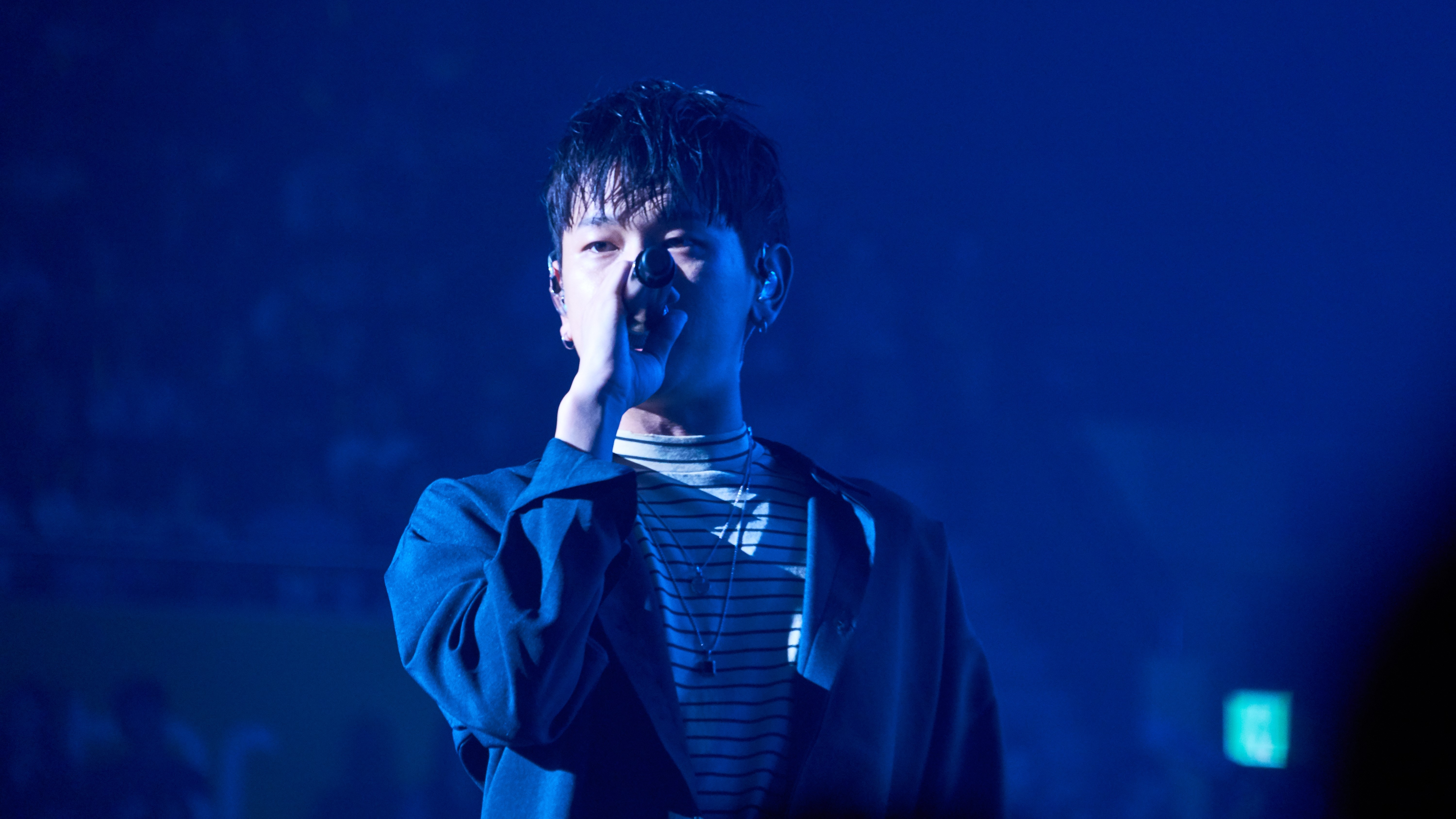 Crush performing at the KB Liiv and Rockstar Concert in Seoul on July 8, 2017.